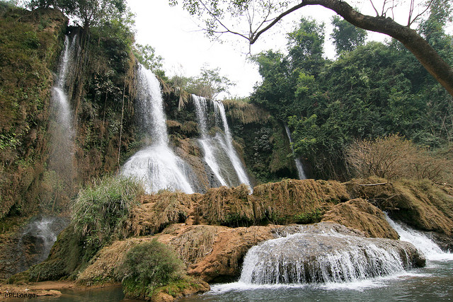 Dai Yem Waterfall, Moc Chau District, Sơn La Province, Vietnam